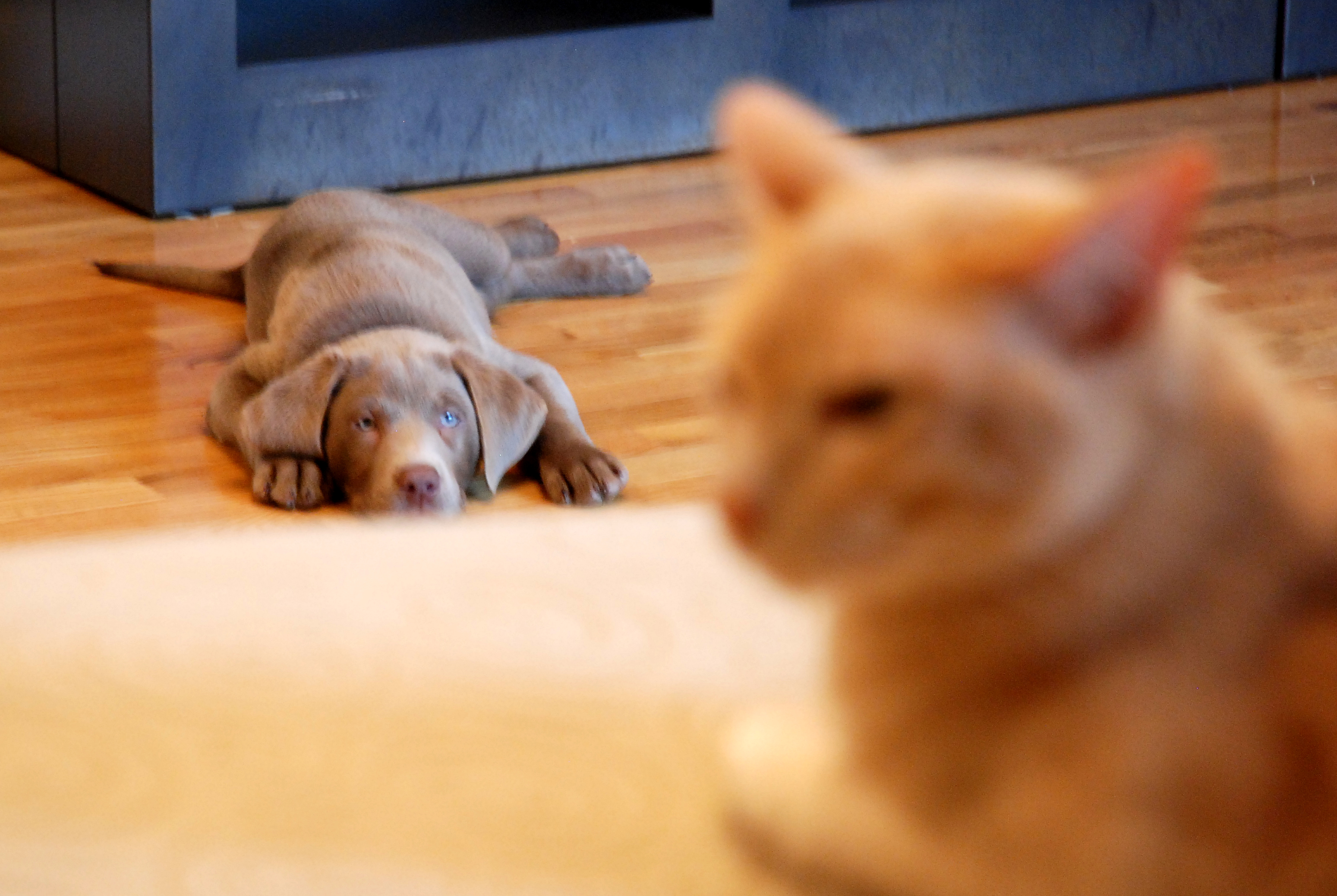 This lab puppy is learning about cats.